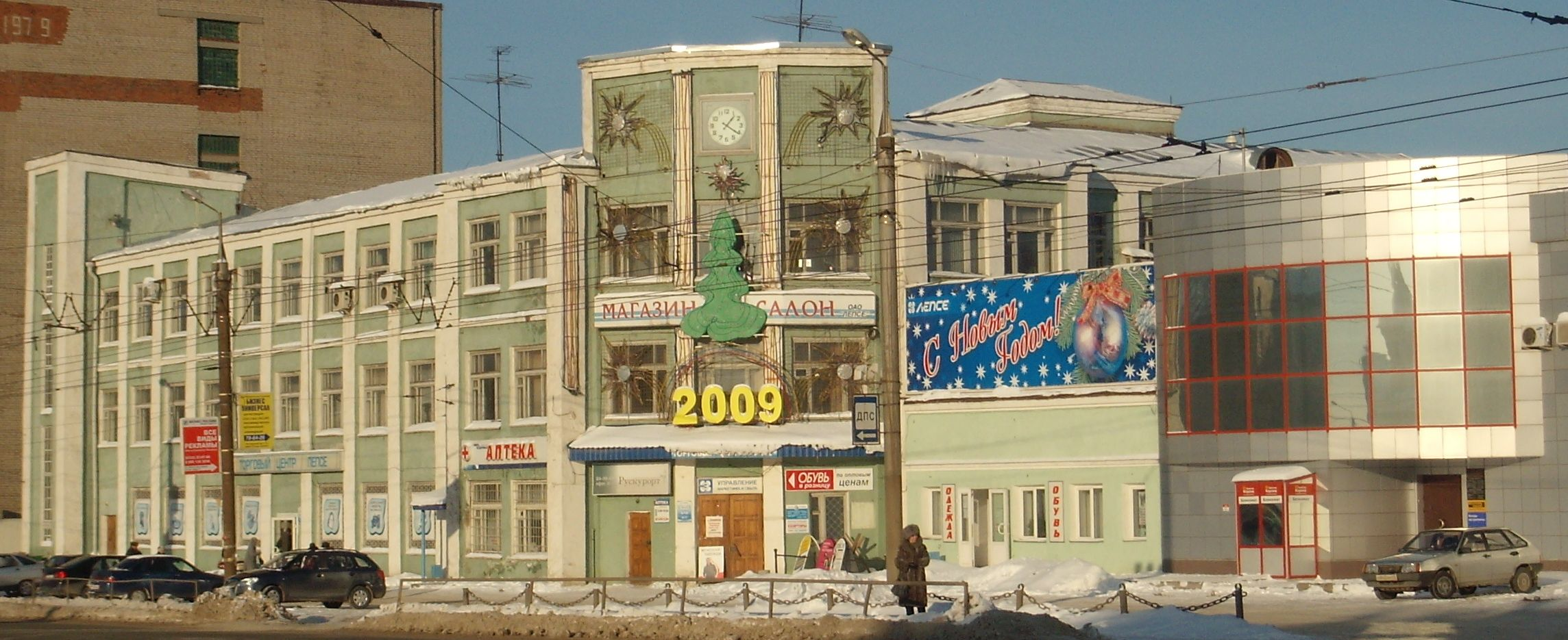 The old factory building management Lepse